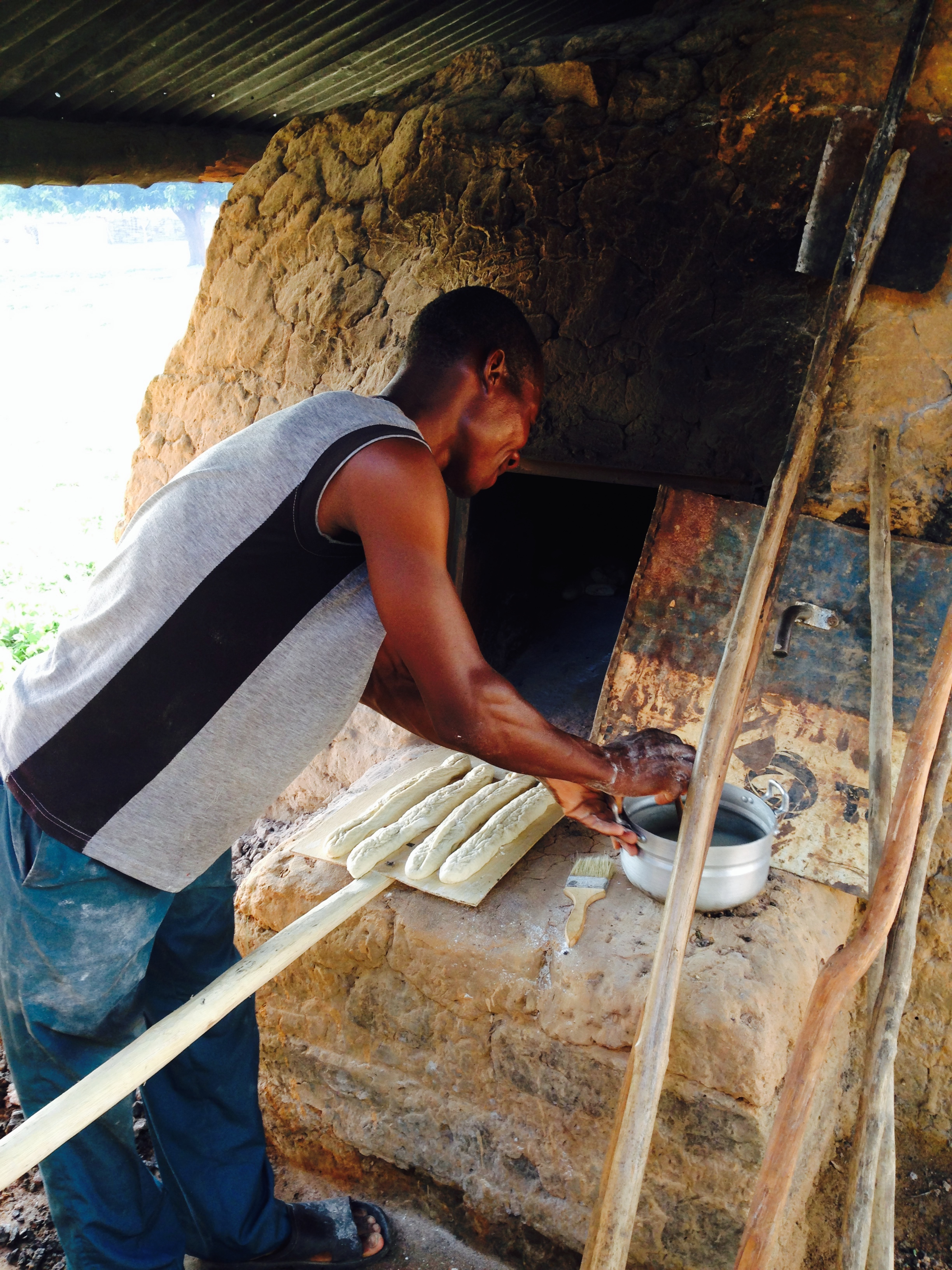 Homemade French Baguette in Gobnangou Cliff, Burkina Faso.